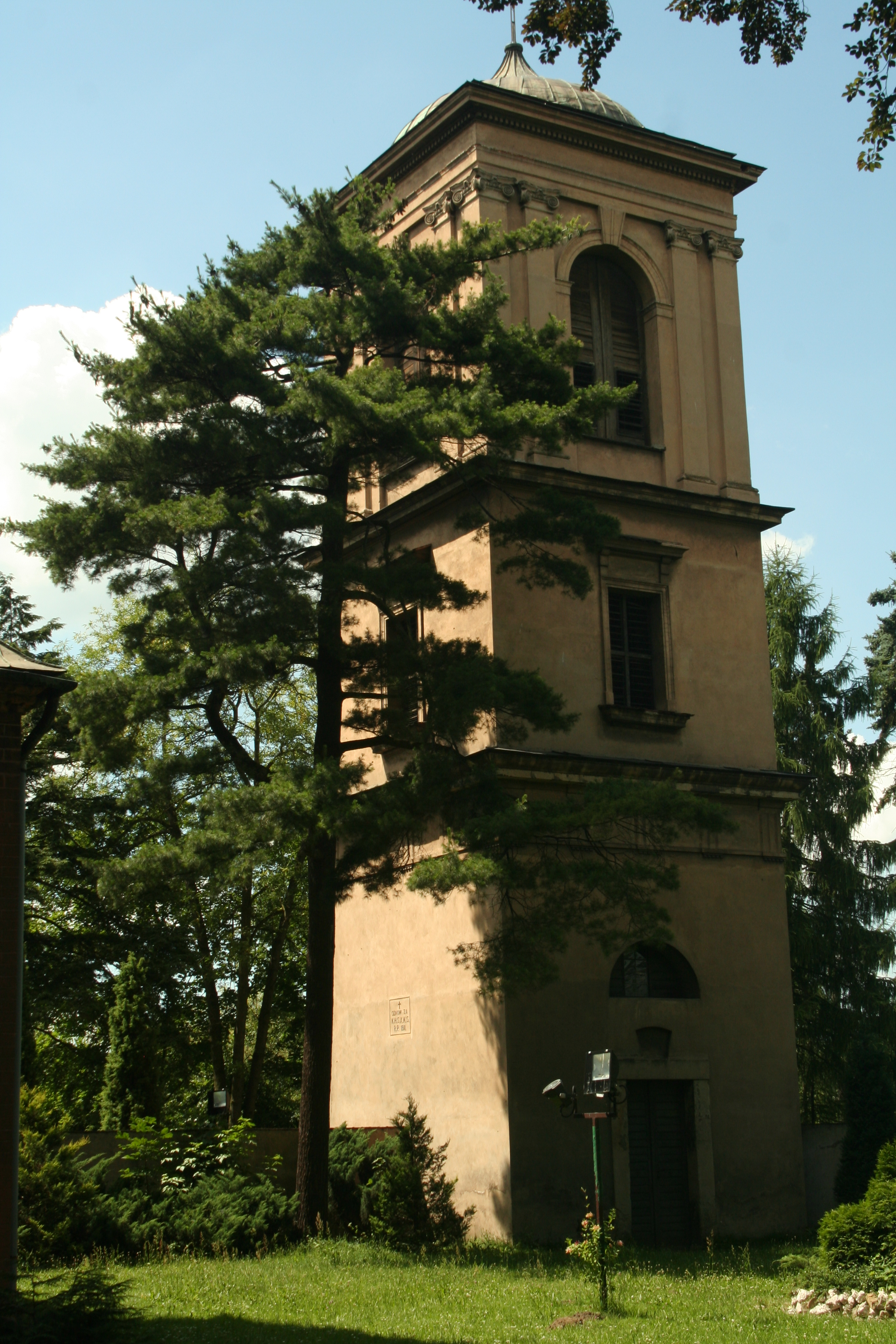 The belltower of the Benedictine Sisters Abbey in Staniątki, Poland